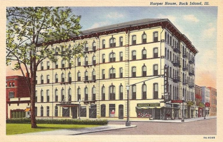 Historic postcard with image of the hotel Harper House (Rock Island, IL)